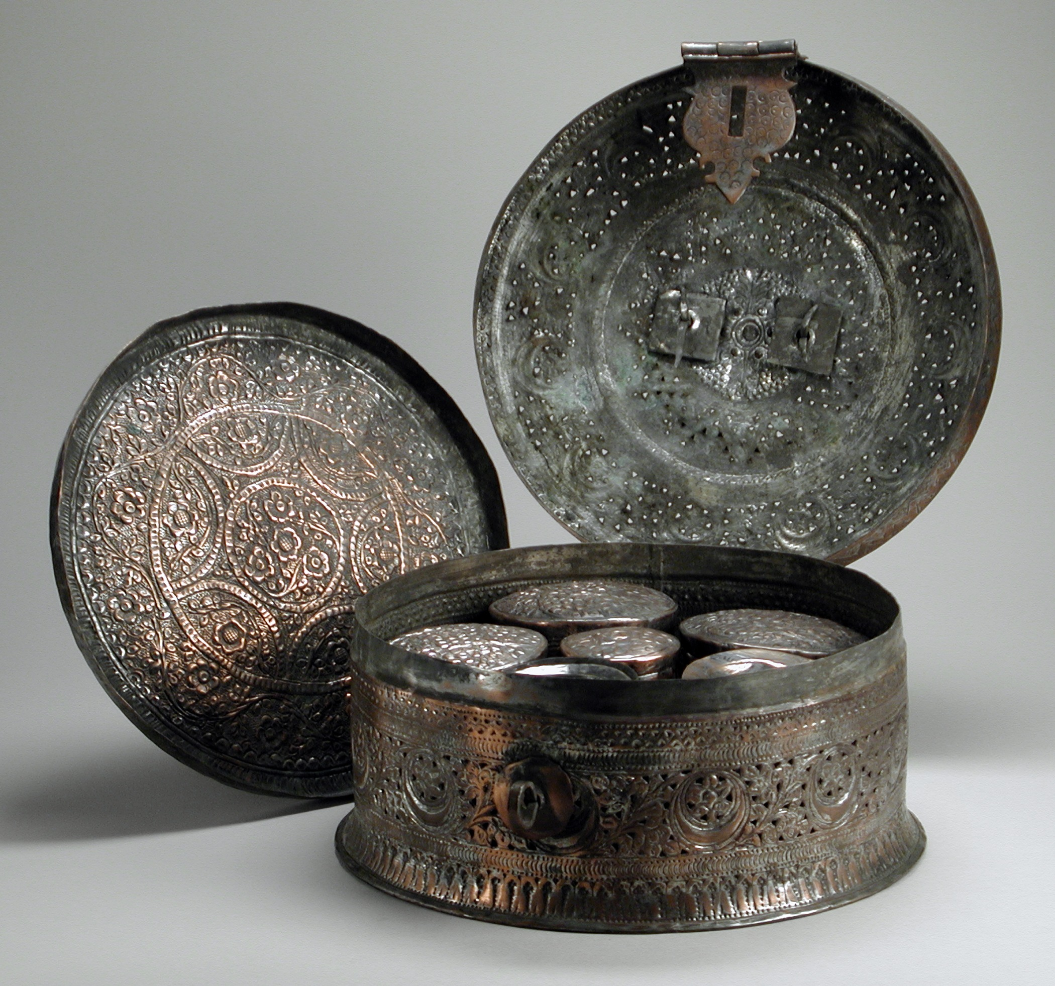 India, Delhi, circa 1800 Furnishings; Accessories Tinned copper Storage box: 7 1/2 x 12 in. (19.05 x 30.48 cm) Gift of the Jaipaul Family (AC1997.229.3.1-.12) South and Southeast Asian Art